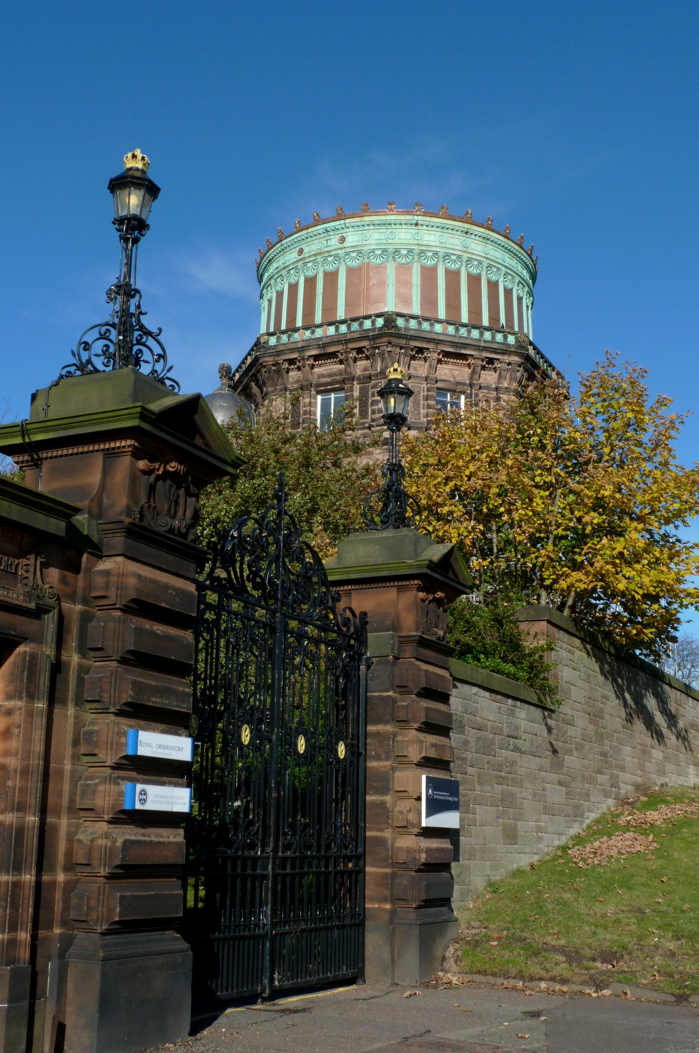 The gate and East Tower of the Royal Observatory, Edinburgh. This picture was taken soon after the refurbishment of the copper dome was completed, in October 2010. The colour of the new copper contrasts with the original 1894 copper.